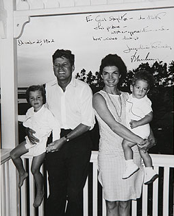 U.S. President John F. Kennedy, First Lady Jacqueline Kennedy, with children John F. Kennedy, Jr. and Caroline Kennedy, in Hyannis Port, Massachusetts. The inscription, dated December 25, 1962, reads "For Cecil Stoughton — who took this picture — with our appreciation and best wishes always." President Kennedy and the First Lady also signed the photograph.